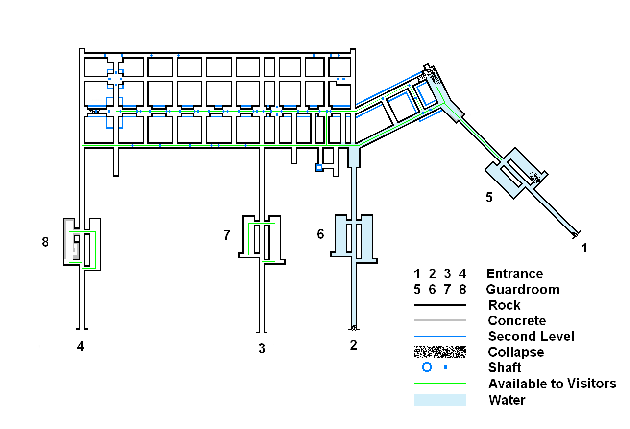 Diagram of the underground complex Włodarz, a part of the project Riese.